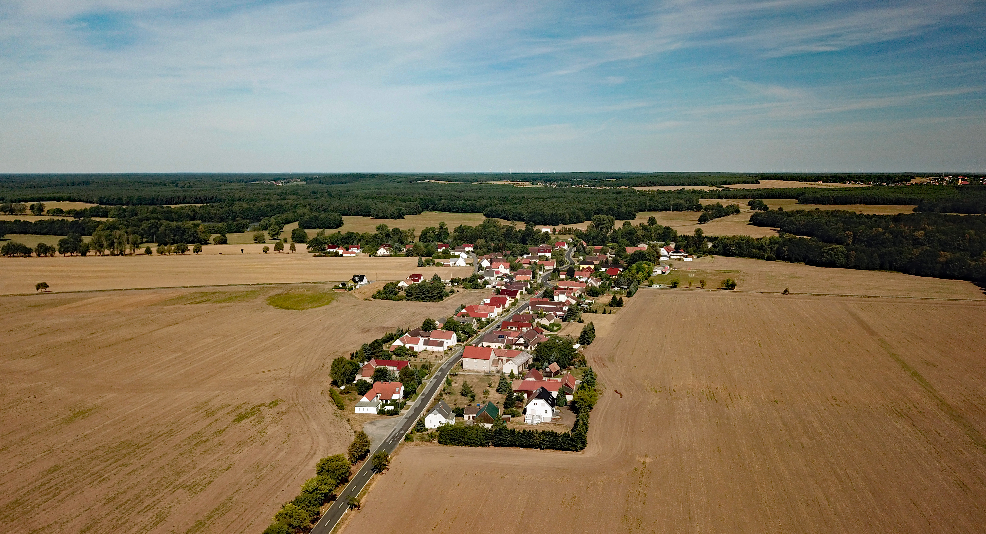 Döbra (Oßling, Saxony, Germany) Hornjoserbsce: Powětrowy wobraz Debric